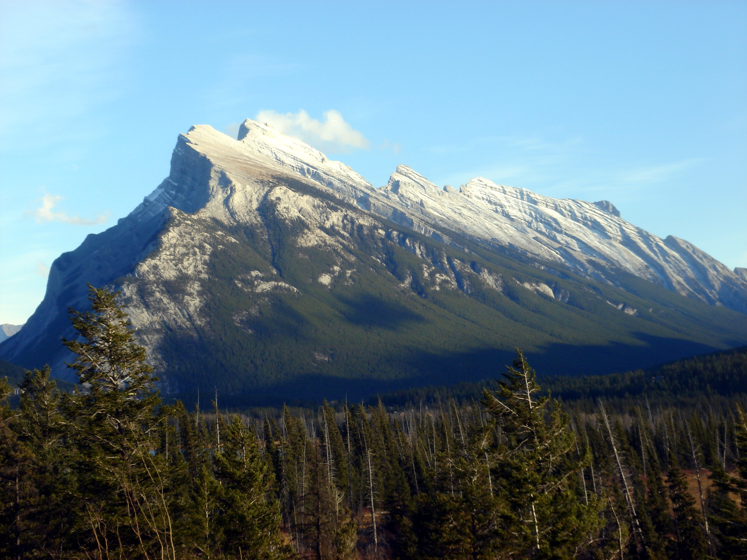 Mount Rundle, Canadian Rockies, Alberta, Canada, west face seen from Bow Valley